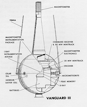 Sketch of the successful Vanguard III satellite